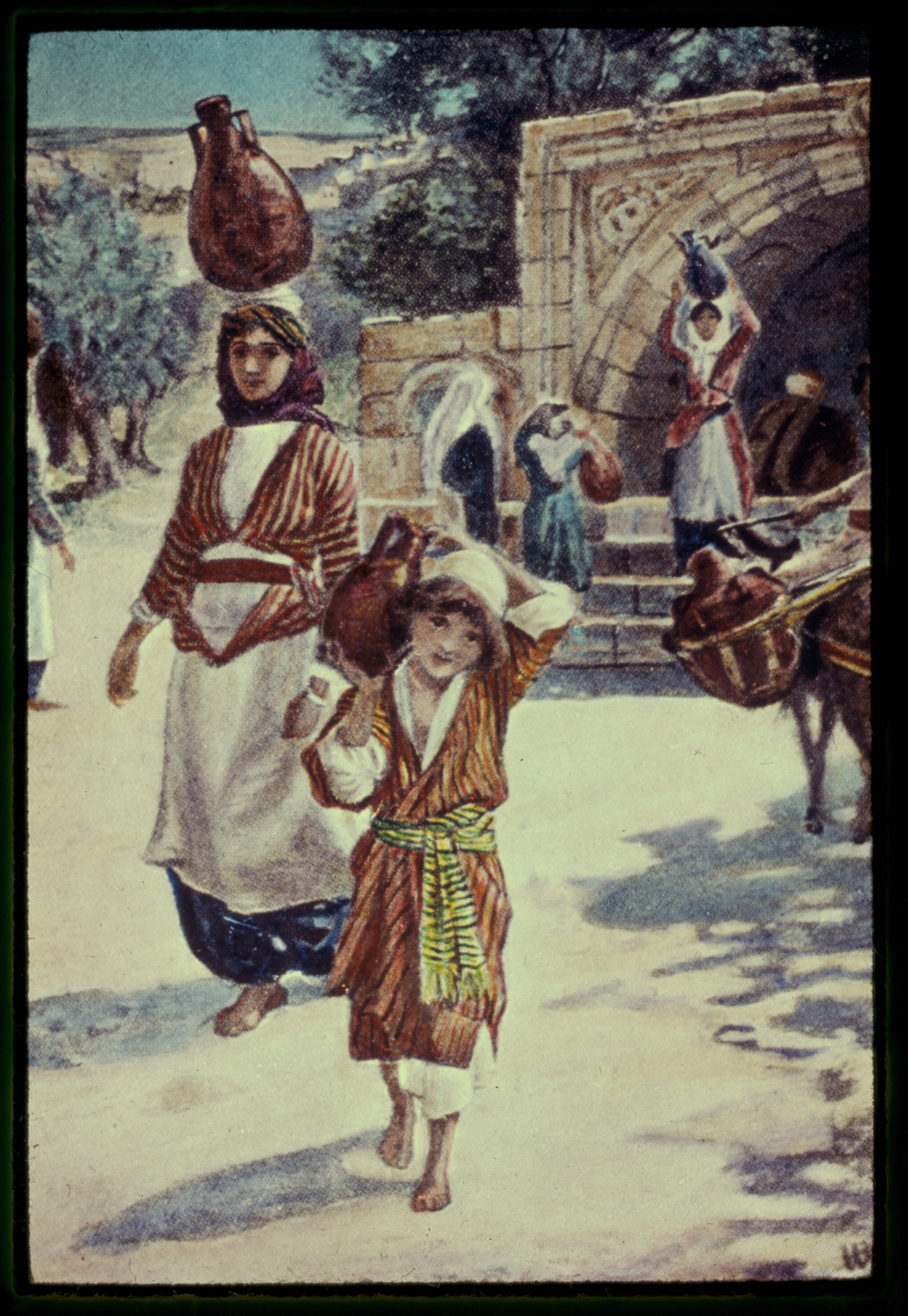 Title: Luke 2:40. Mary and child Jesus in Nazareth Abstract/medium: G. Eric and Edith Matson Photograph Collection Physical description: 1 slide